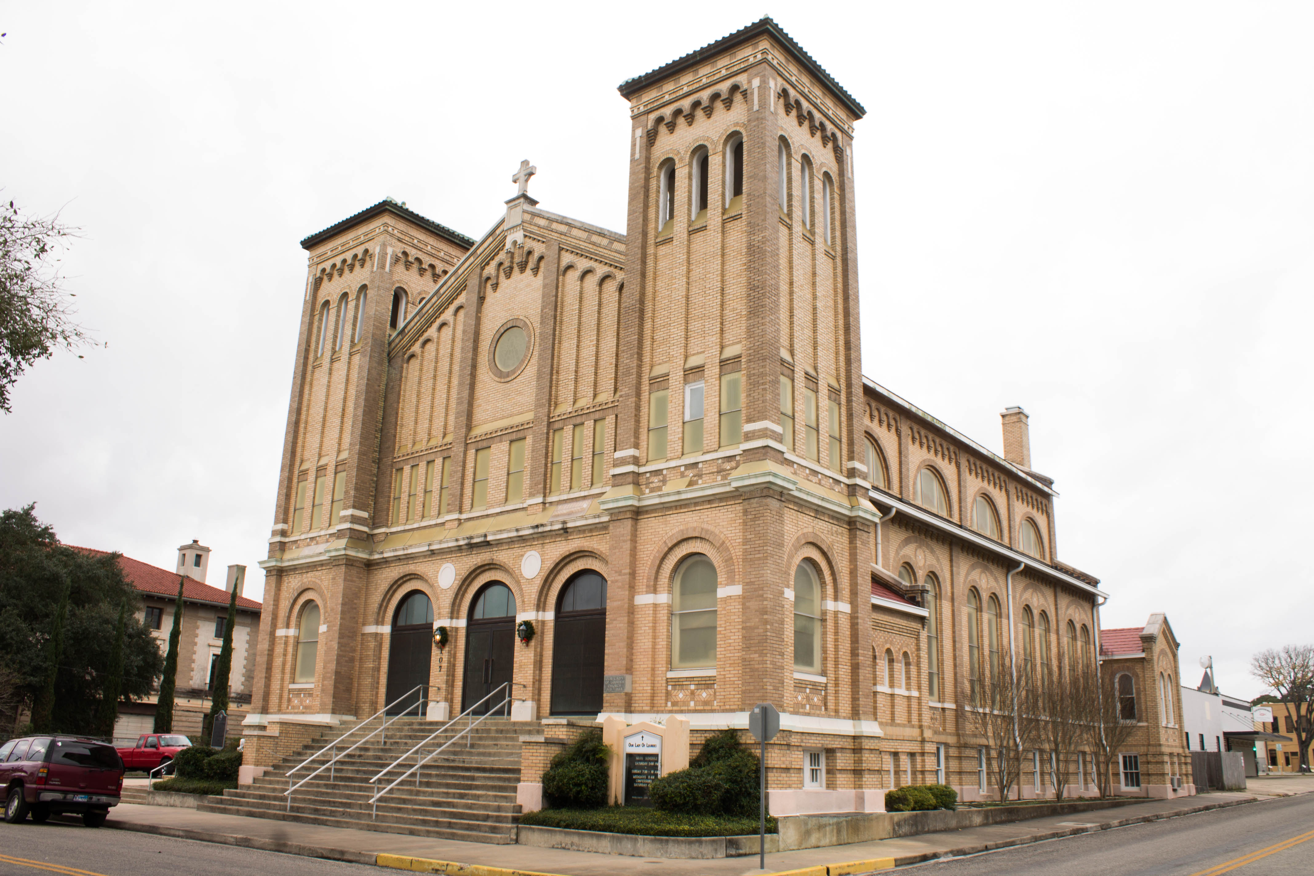 Our Lady of Loudres Church in Victoria, Texas